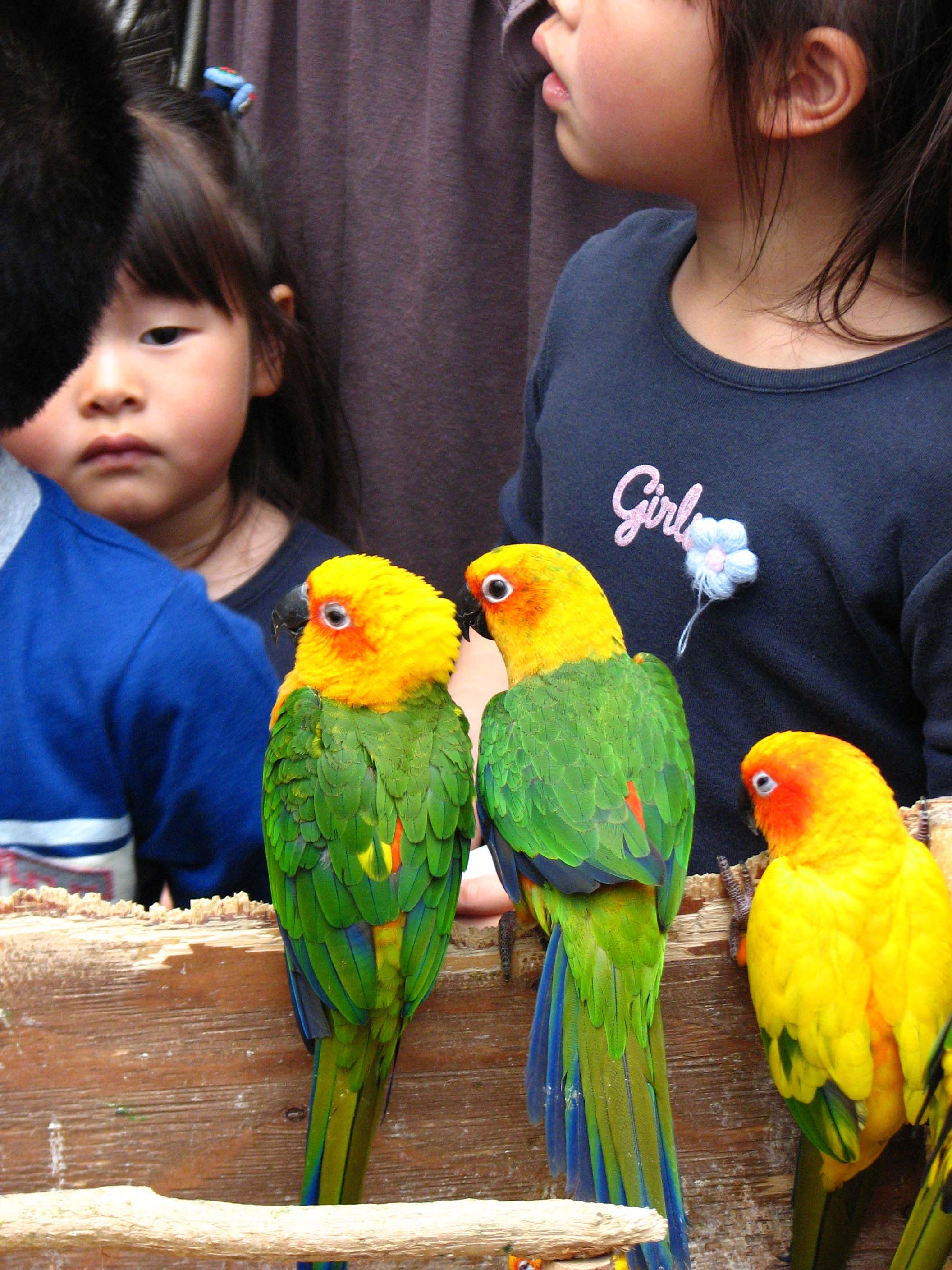 Parrots and children at Kobe Kachoen (Kobe Flowers and Birds Garden) in Kobe, Hyogo prefecture, Japan.